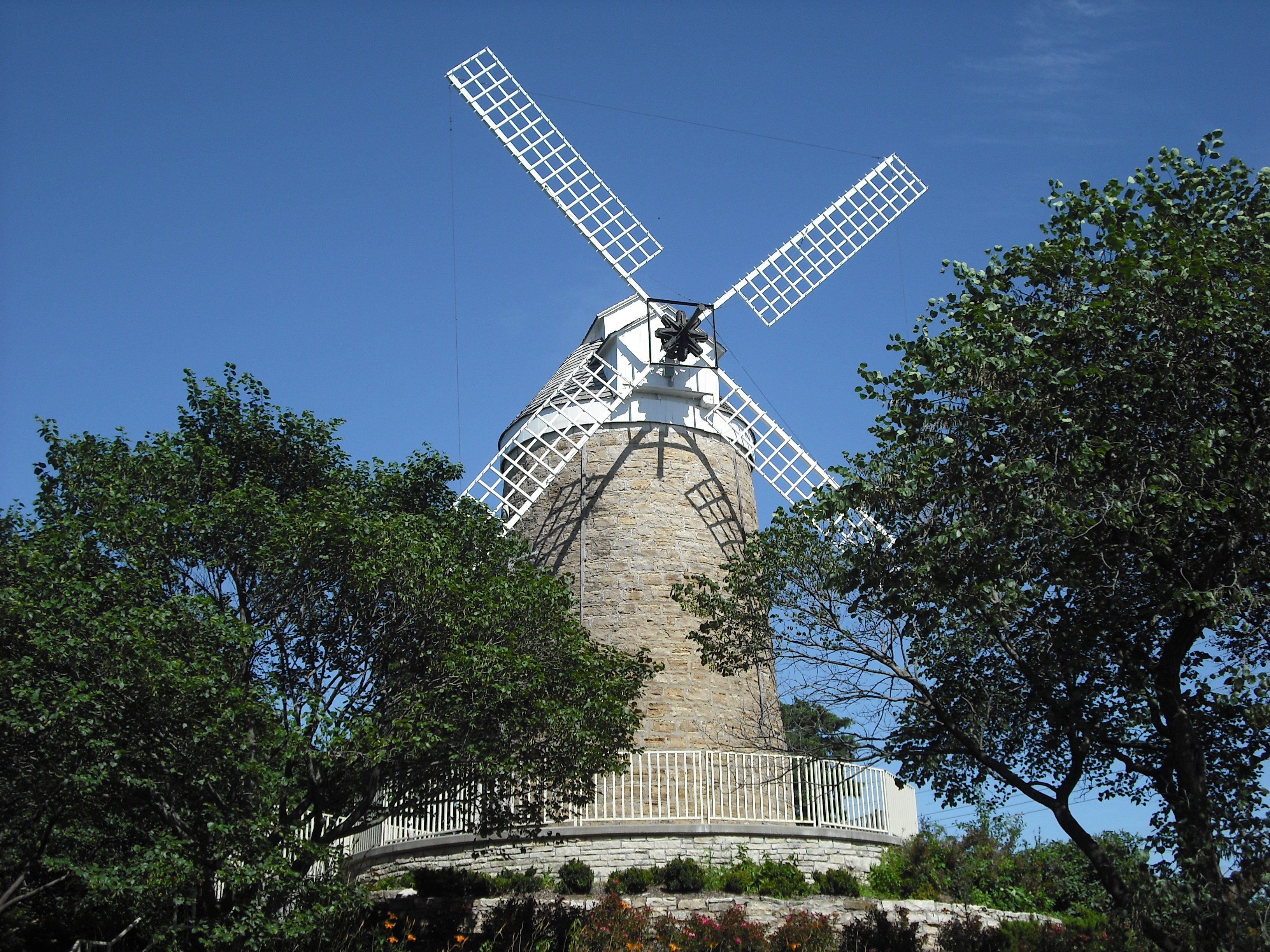 The old Dutch Windmill in Wamego City Park.